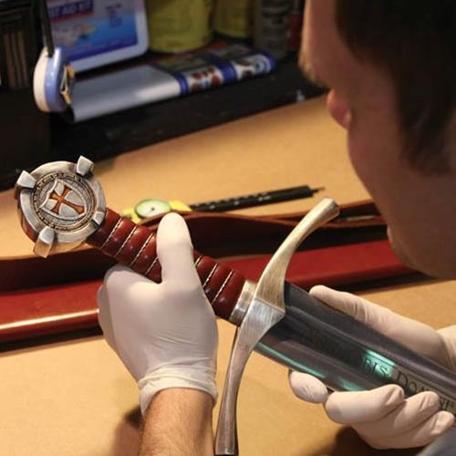 Windlass Steelcrafts metal-smiths spent countless hours on each blade, hand forging the high carbon steel for optimal balance, quickness and durability. The Accolade would have been a sword worthy of the Grand Master to knight a loyal member into this holy order.